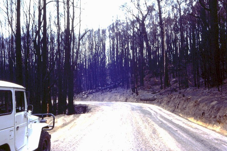 Extensive areas of mountain ash forest around Powelltown were all killed by the fire. This resulted in a massive timber salvage operation.